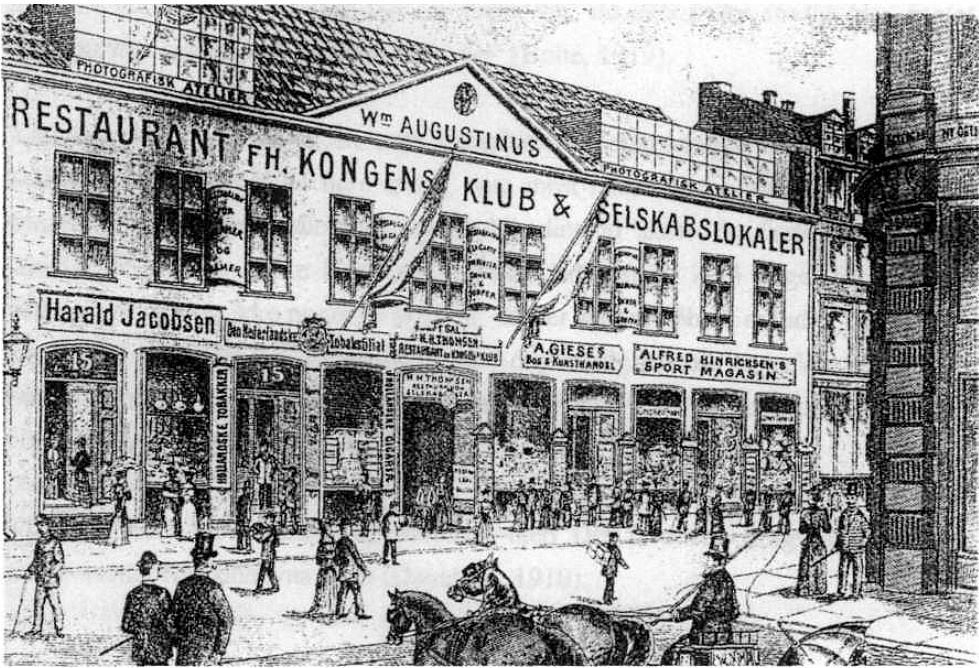 Photografisk Atelier: Wm. Augustinus. Karl van manders Gård, Østergade 15, o. 1890. Ukendt tegner.